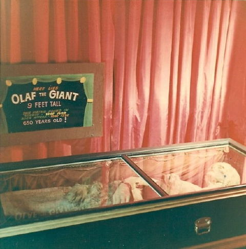 Olaf the Giant in his coffin at Jones' Fantastic Museum in Seattle, USA during the period 1960-1980.